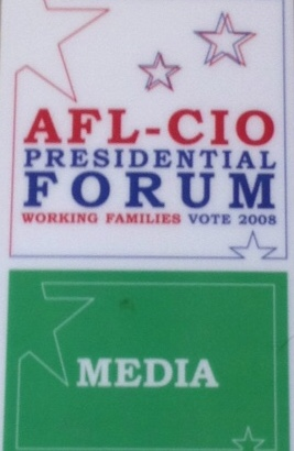 AFL-CIO forum backstage pass